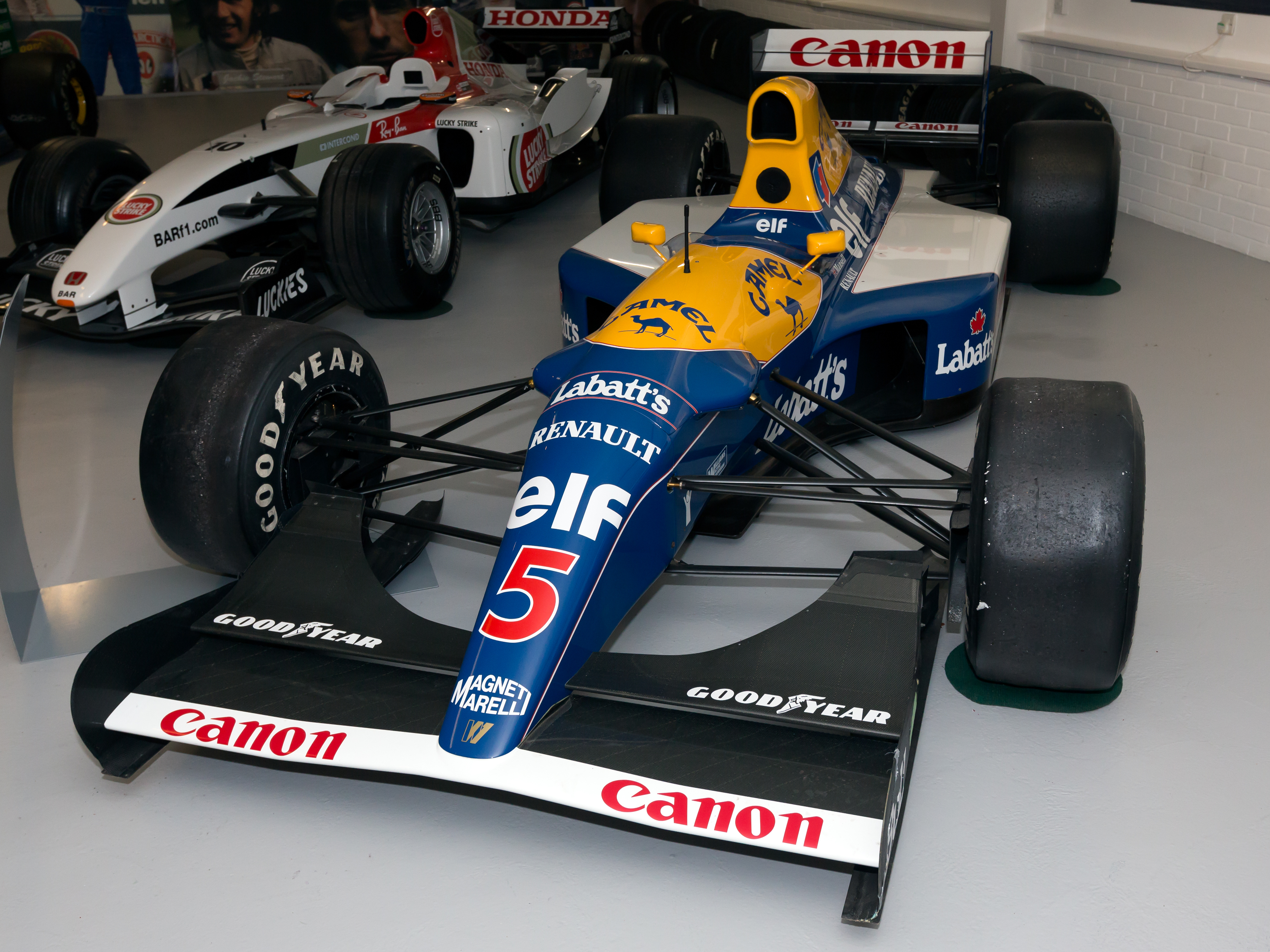 1992 Williams FW14B (#5 Nigel Mansell)